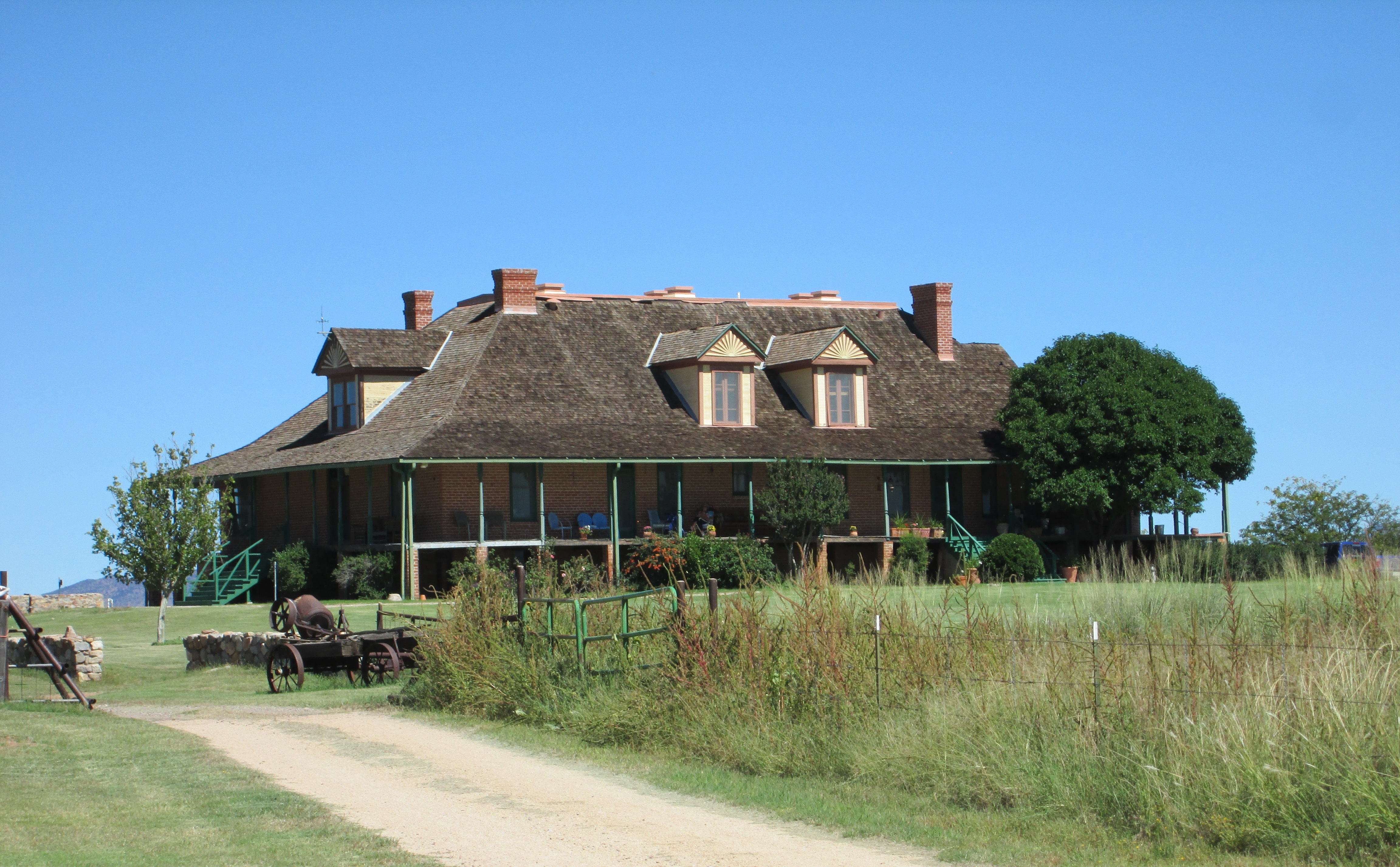 The San Rafael Ranch House in Santa Cruz County, Arizona.